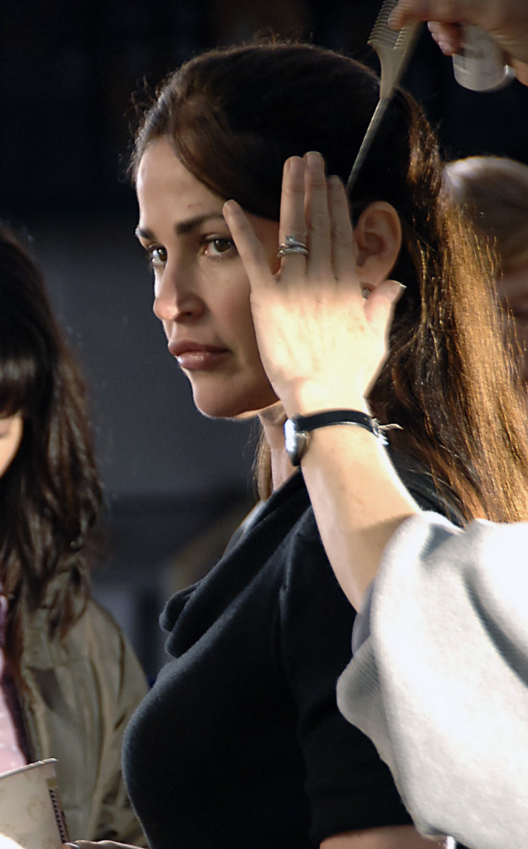 Actress Kim Delaney gets her hair done while filming a scene for an upcoming Lifetime television episode of "Army Wives" April 7 on Charleston Air Force Base, S.C. Ms. Delaney plays Claudia Joy Holden on the show.